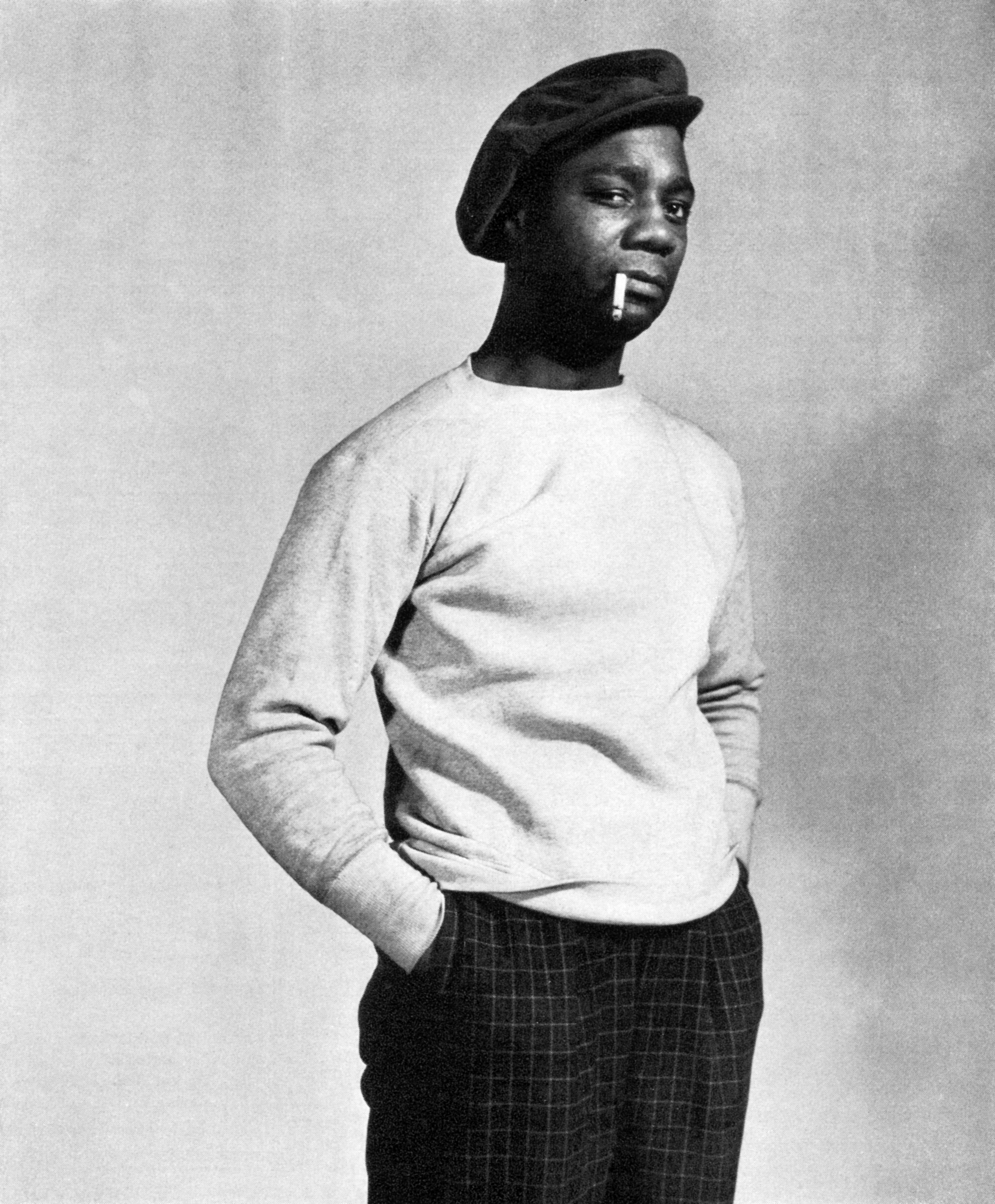 Promotional photograph of Canada Lee as Bigger Thomas in the original Broadway production of Native Son Caption reads as follows:Canada Lee as Bigger Thomas in the Orson Welles production of Native Son, dramatized by the novel's author, Richard Wright, and Paul Green.